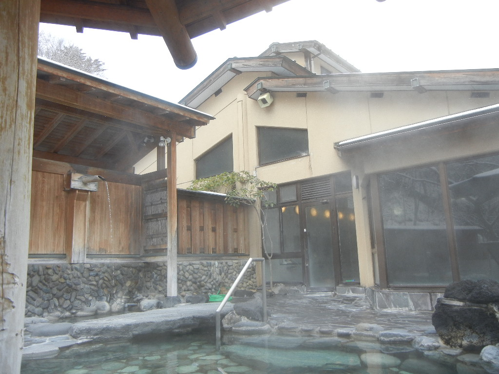 Seiryunoyu-Nakanojo-Gunma. 群馬県中之条町の四万温泉にある日帰り温泉施設「清流の湯」, Nakanojo.